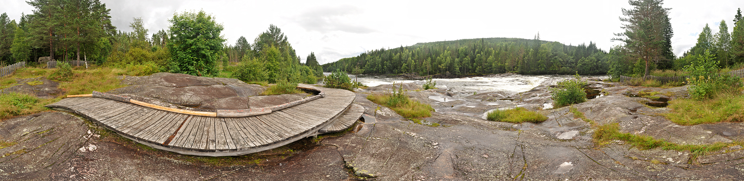 Panorama of the area near the petroglyphs at Møllerstufossen.